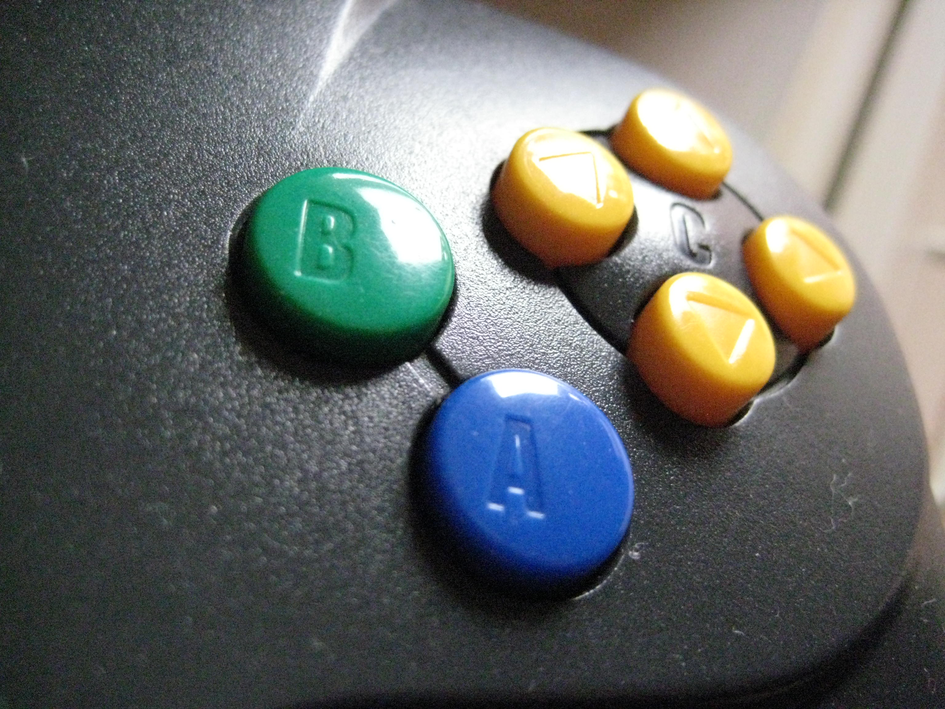 A video game controller for the Nintendo 64